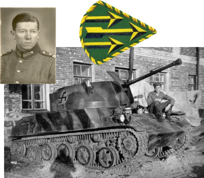 In the Äänislinna Ukon Kasarmi (Petrozavodsk regiment), Landsverk Anti II AA tank, Eero Jousi sat in a tank on top 1942. Pentti Jousi NCO school photo 1919, Military Chevron Lagus platoon (Perheen valokuvat)